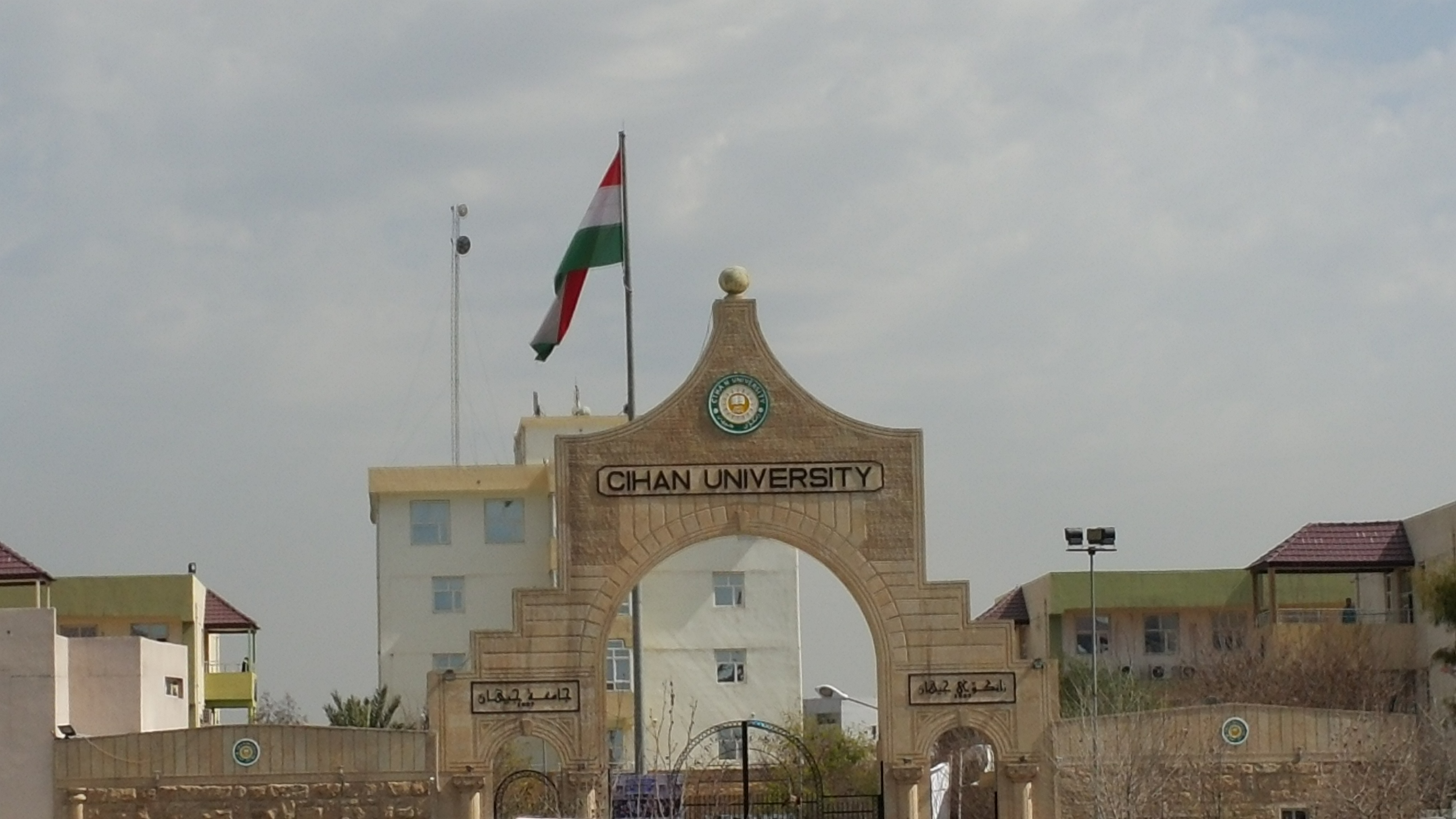 cihan university erbul camp